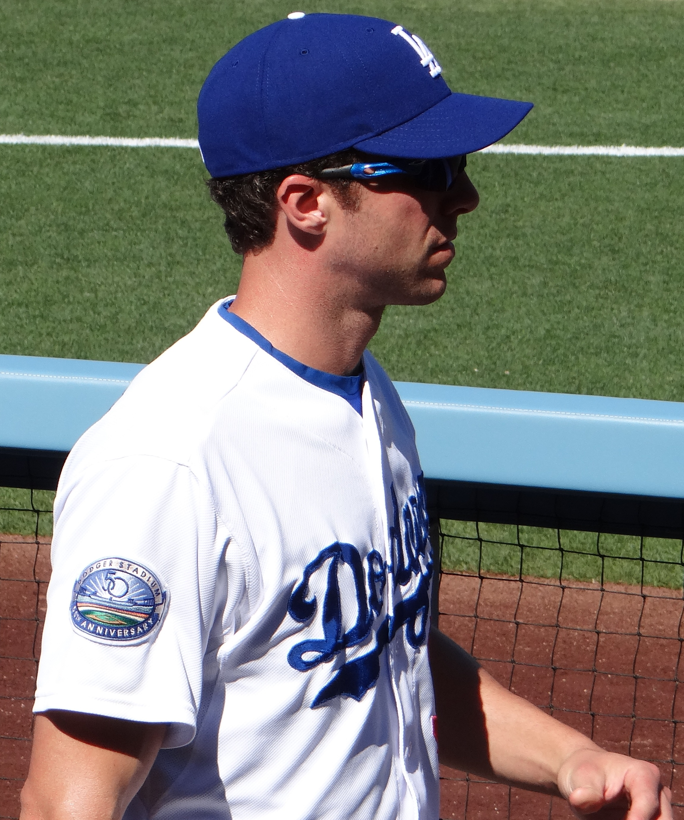 Photograph of Chris Capuano, pitcher for the Los Angeles Dodgers